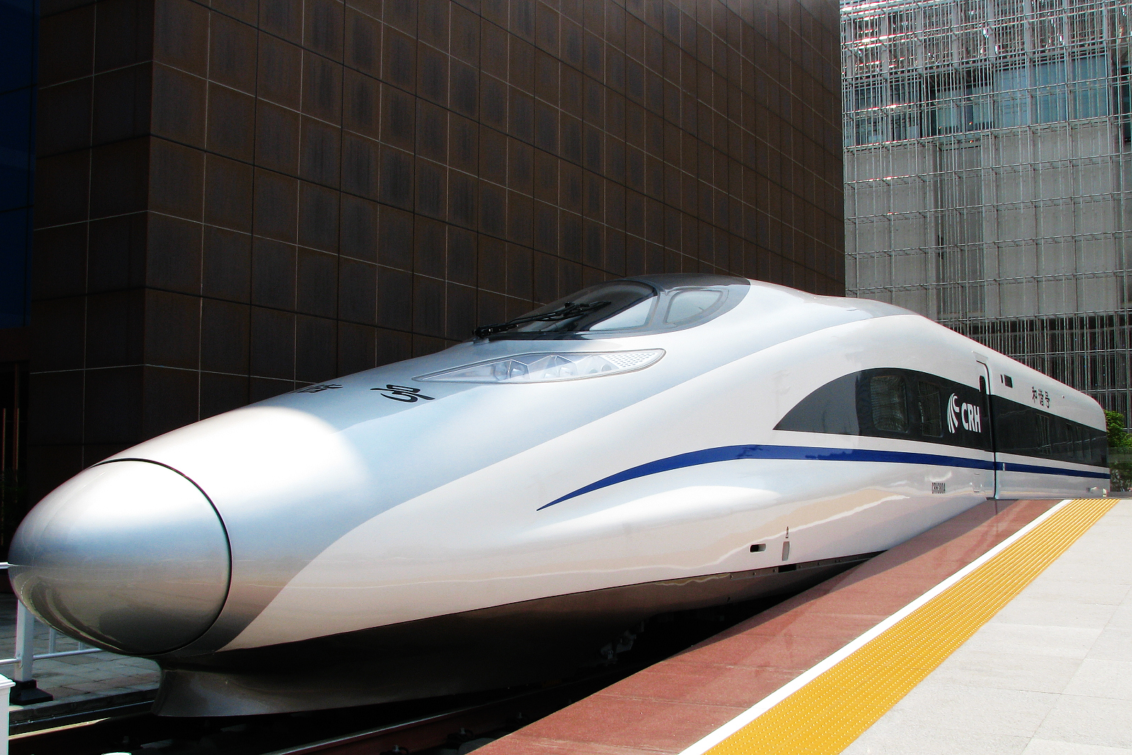 China Railway Highspeed(CRH) CRH-2 380A high speed train